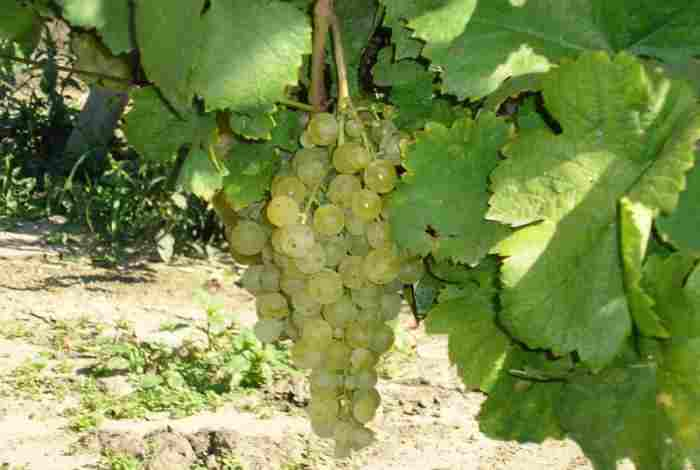 Oliver Irsai